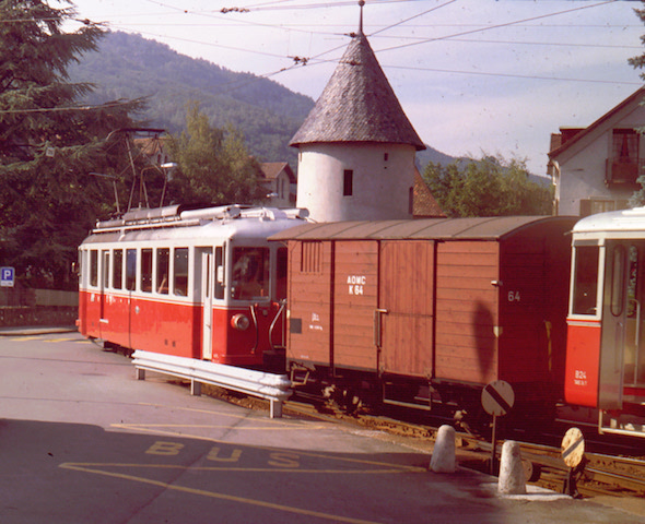 AOMC Monthey 8/79